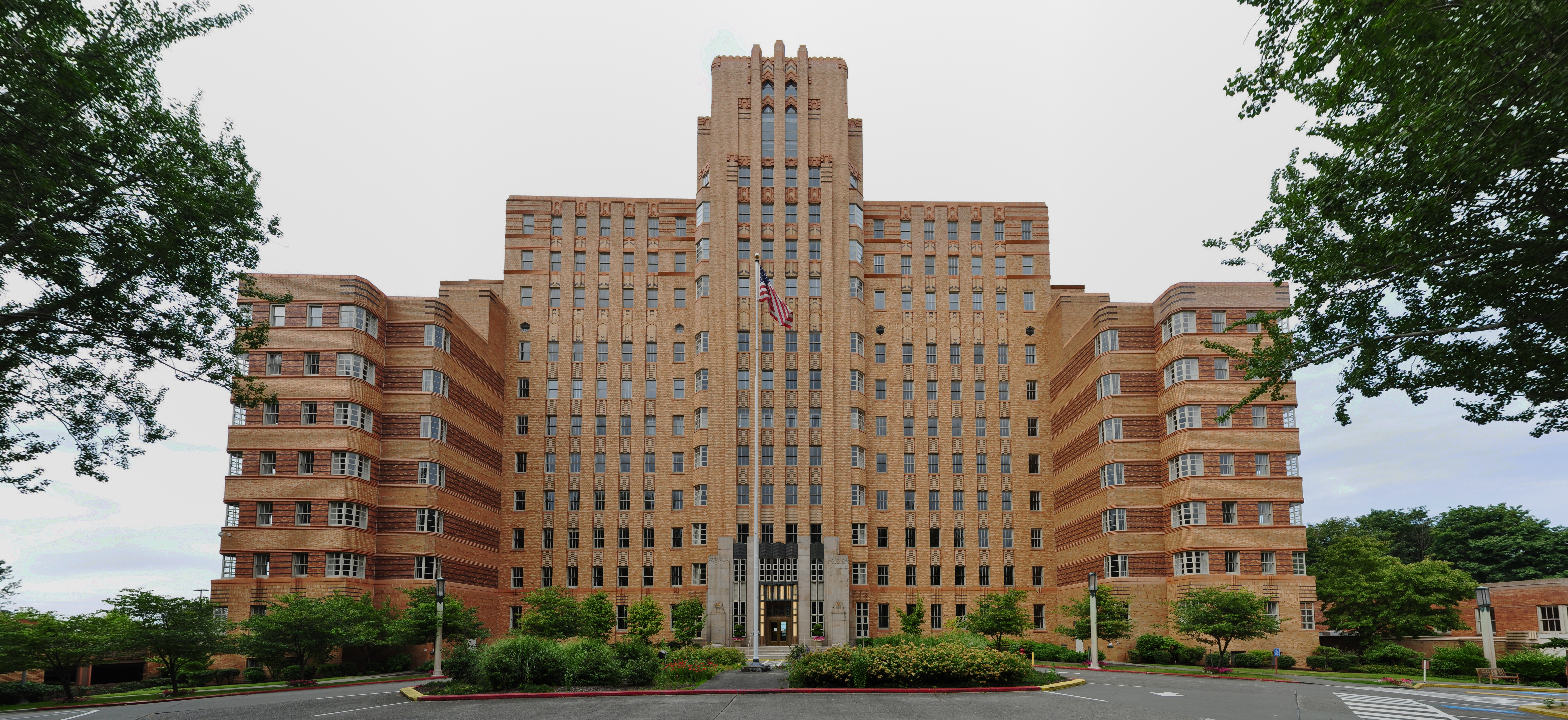 Panoramic view of Pacific Medical Center, Seattle, Washington, USA. Former U.S. Marine Hospital and later Public Health Hospital in Seattle, Washington, USA, then outpatient clinic Pacific Medical Center (a small part of the east wing and the ground floor continues to serve that role) then from 1999(?) to 2011 's global headquarters. Has city landmark status and is on the National Register of Historic Places. This image was created with Hugin